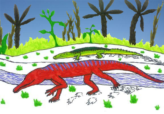 On the foreground a crocodile like Champsosaurus coming out of the water. On the background is the prehistoric alligator Leidyosuchus. Alberta, 70 million years ago.